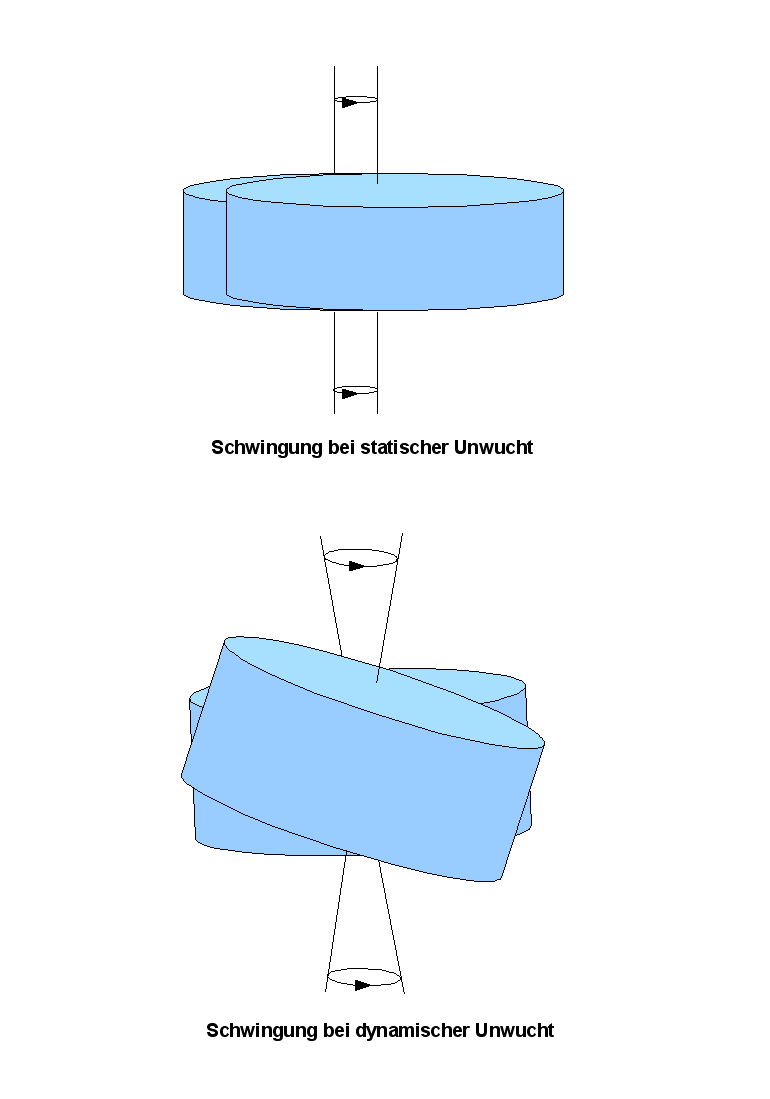 Tire balance ?